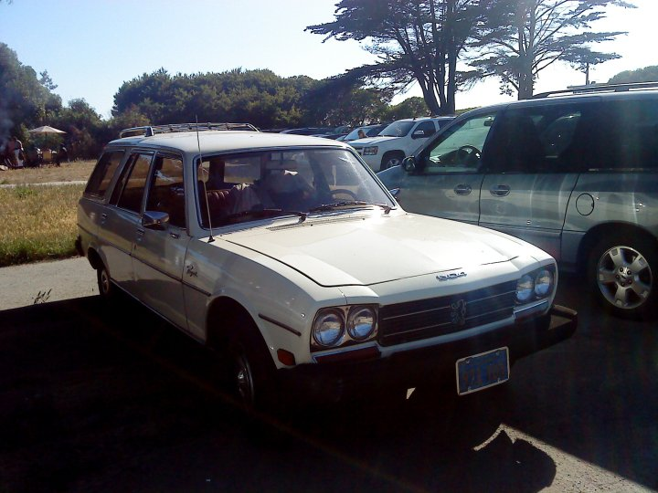 1977-1979 Peugeot 504 station wagon in San Francisco